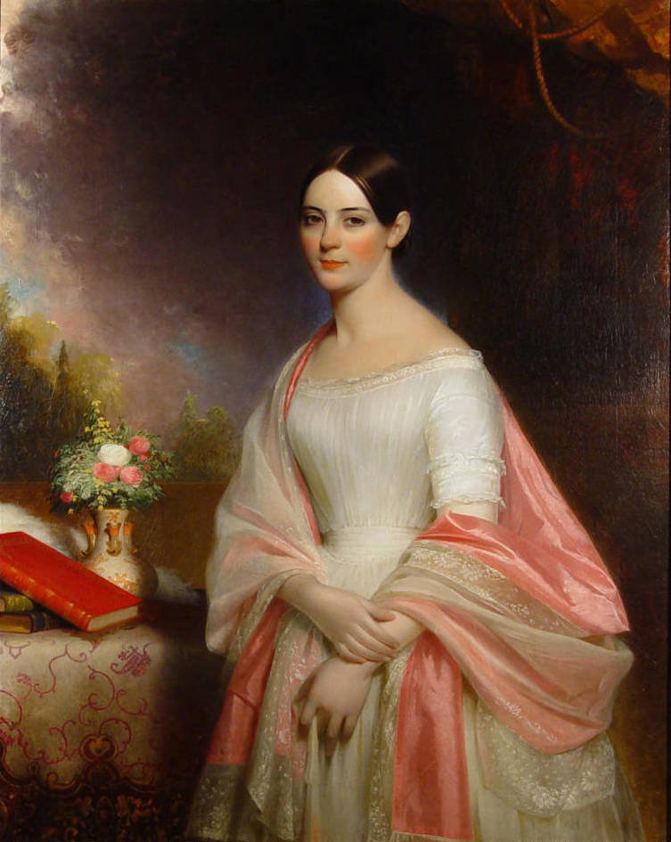 Catherine Lyman Delano, grandmother of FDR